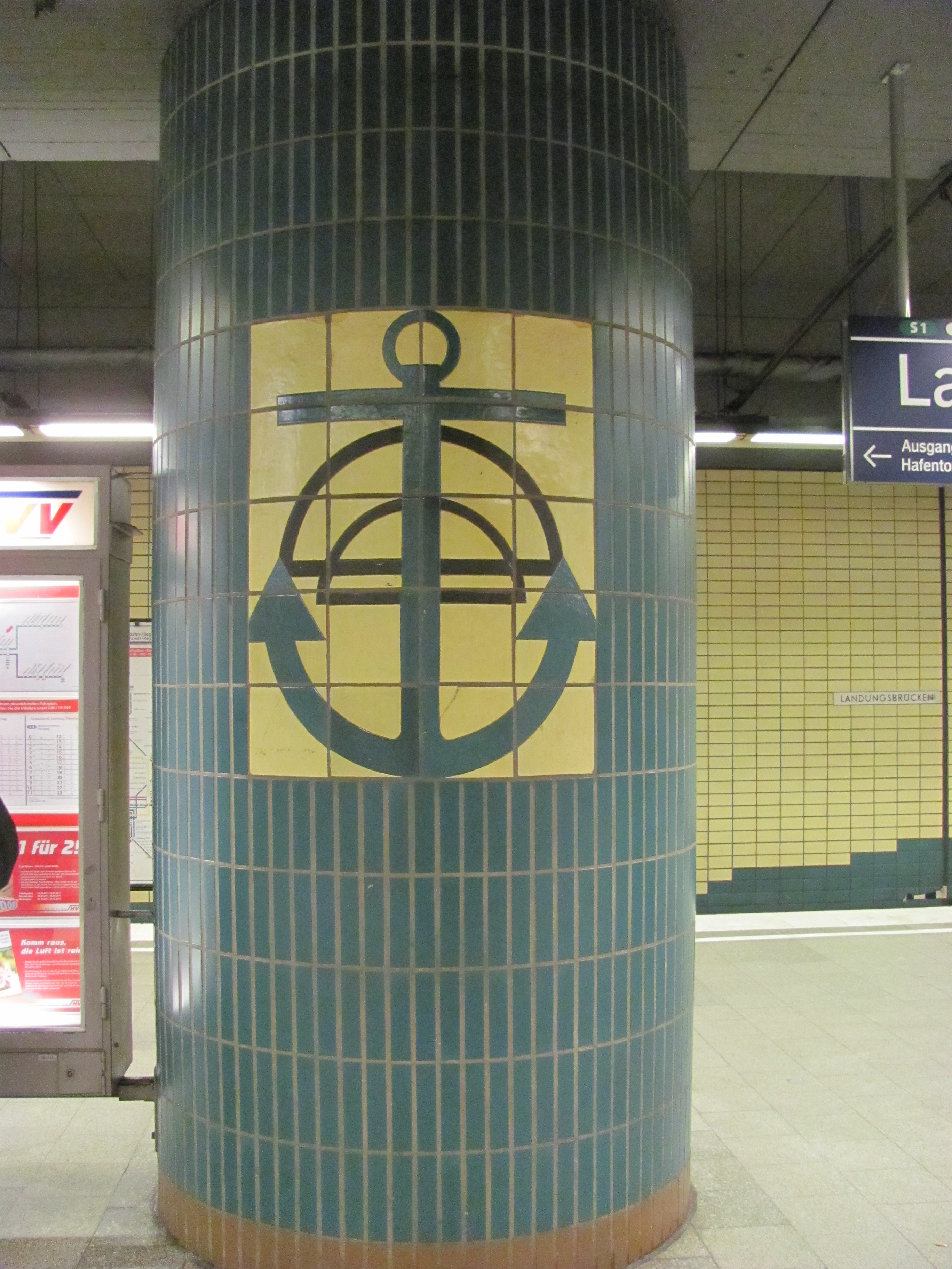 S-Bahn station Landungsbrücken in Hamburg, Germany